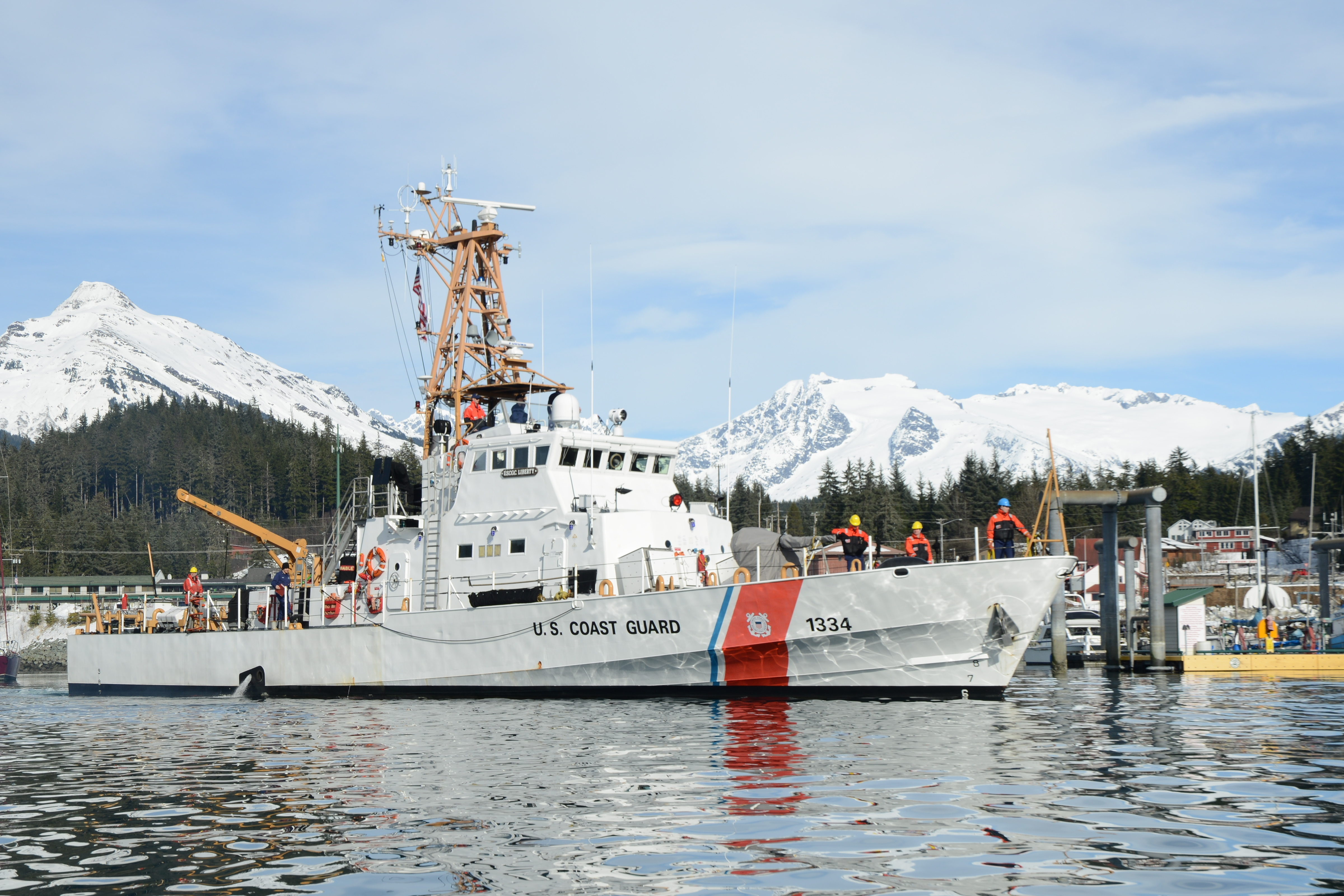 The crew of the Coast Guard Cutter Liberty prepares to moor at their homeport of Juneau, Alaska, March 13, 2018. The crew of the Cutter Liberty, a 110-foot patrol boat homeported in Juneau, Alaska, was completing tailored ship's training availability, a biennial readiness assessment of the cutter and crew. Coast Guard photo by Lt. Brian Dykens.